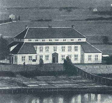 A depiction of Kammerherre Farm as built in 1760 by Joen Jacobsen. First built as a farmhouse, later used as Porsgrunn City Hall.